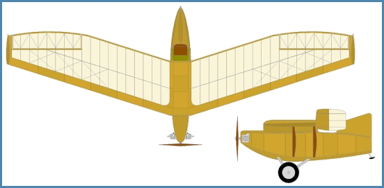 RRG Storch 9 Flying Wing